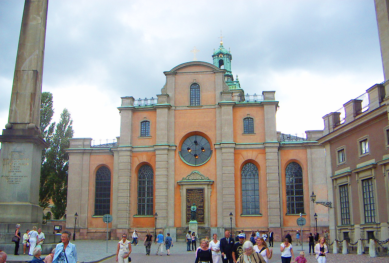 Storkyrkan, Stockholm.